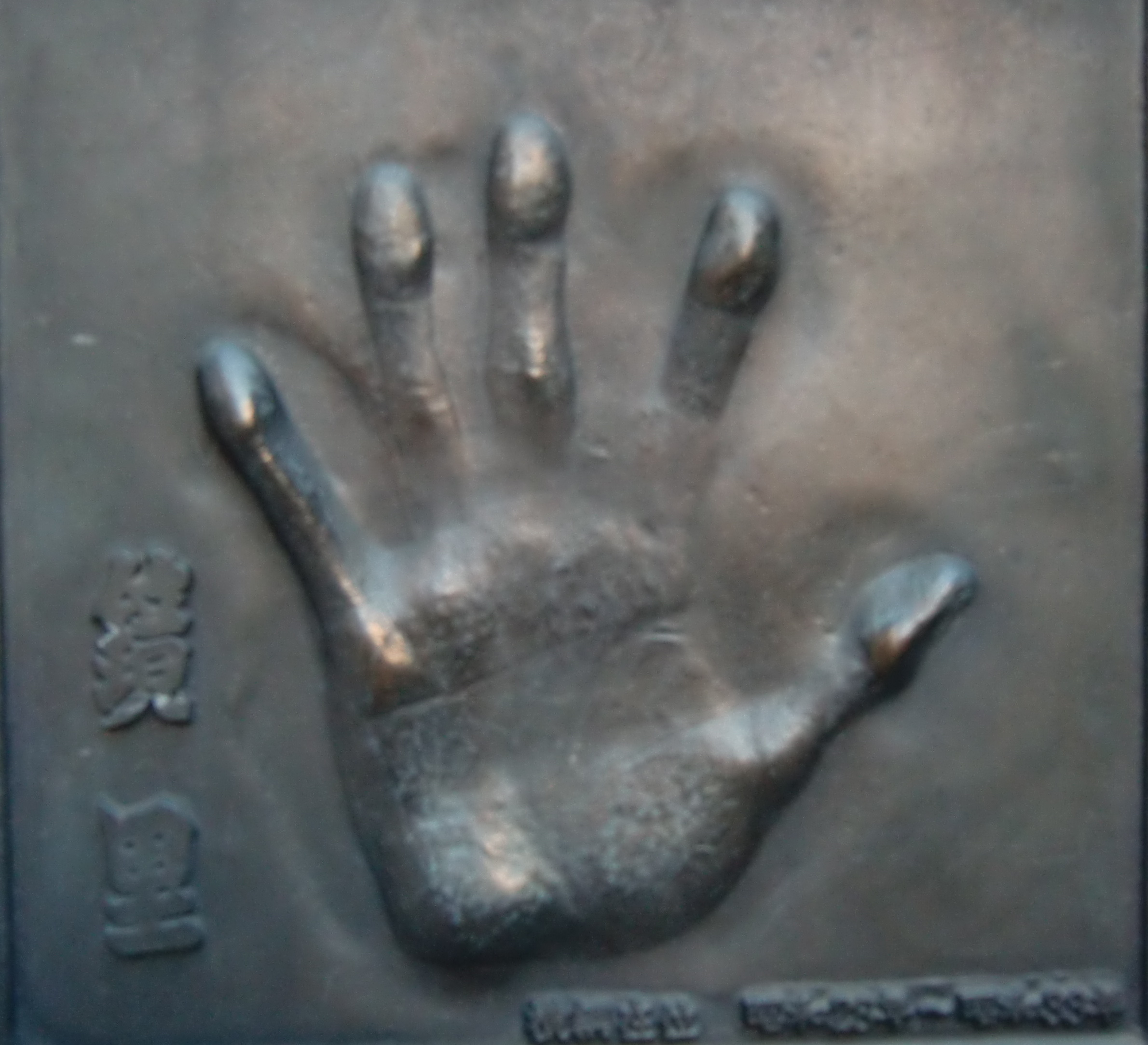 image taken from monument in Ryogoku, Tokyo